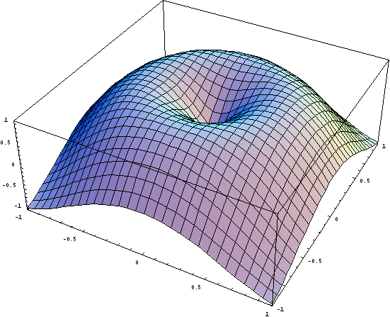 graph of function of 2 variables z = sin ⁡ ( π × x 2 + y 2 ) {\displaystyle z=\sin(\pi \times {\sqrt {x^{2}+y^{2 })}